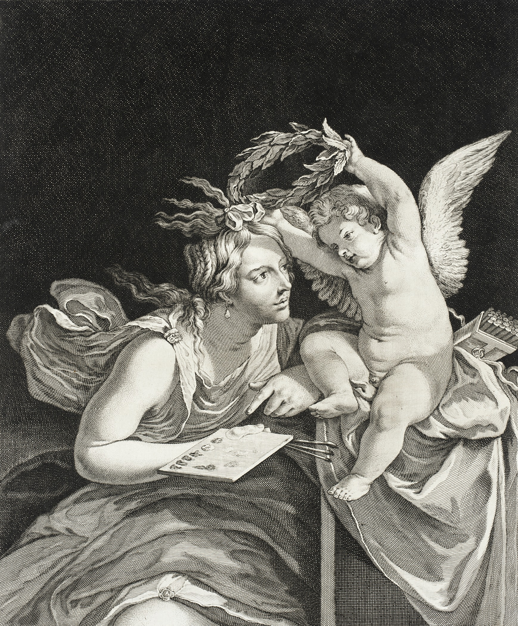 Holland, circa 1650 Prints; engravings Engraving and etching Mary Stansbury Ruiz Bequest (M.88.91.451) Prints and Drawings